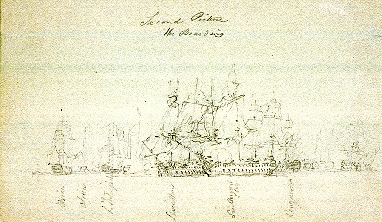 The Battle of Trafalgar, 21 October 1805; 'Second Picture', the boarding of the 'San Augustino' by the 'Leviathan' This painting is inscribed by Pocock in ink 'Second Picture/ the Boarding'. The ships are identified, left to right, in pencil as 'Orion', 'Africa', 'L'Intrepide', 'Leviathan', ‘San Augustino', and 'Conqueror'. This work also relates compositionally to a painting of the Spanish 'Monarca' (74) built 1794 striking the 'Tonnant' at Trafalgar, which is one of a pair of that engagement at Trafalgar (24 x 36 in) probably painted for Captain (later Admiral Sir) Charles Tyler of 'Tonnant', sold at Christie's Maritime Art sale, London, 29 October 2008, lot 29. As in this sketch, which is clearly for a similarly commissioned pair, the British ship is shown behind (to leeward) of the Spanish vessel in much the same relationship. Exhibited: NMM Pocock exhib. (1975) no. 98. The paper is noted as having a fragmentary Whatman watermark. The Battle of Trafalgar, 21 October 1805; 'Second Picture', the boarding of the 'San Augustino' by the 'Leviathan'